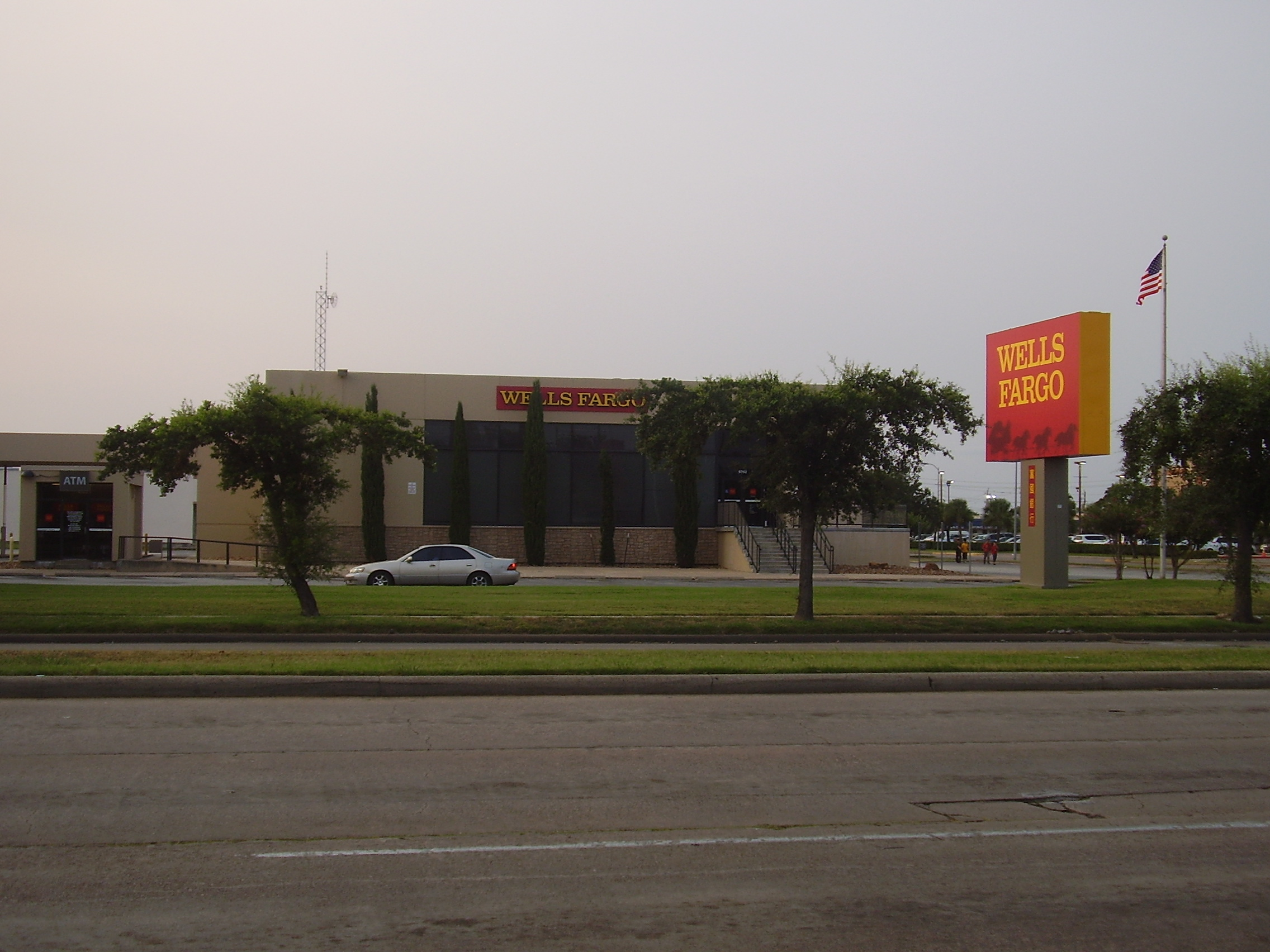 Wells Fargo (Chinese: 富國銀行 Fùguó Yínháng) Beltway bank branch - 9702 Bellaire Blvd, Houston, TX, 77036 - Houston Chinatown